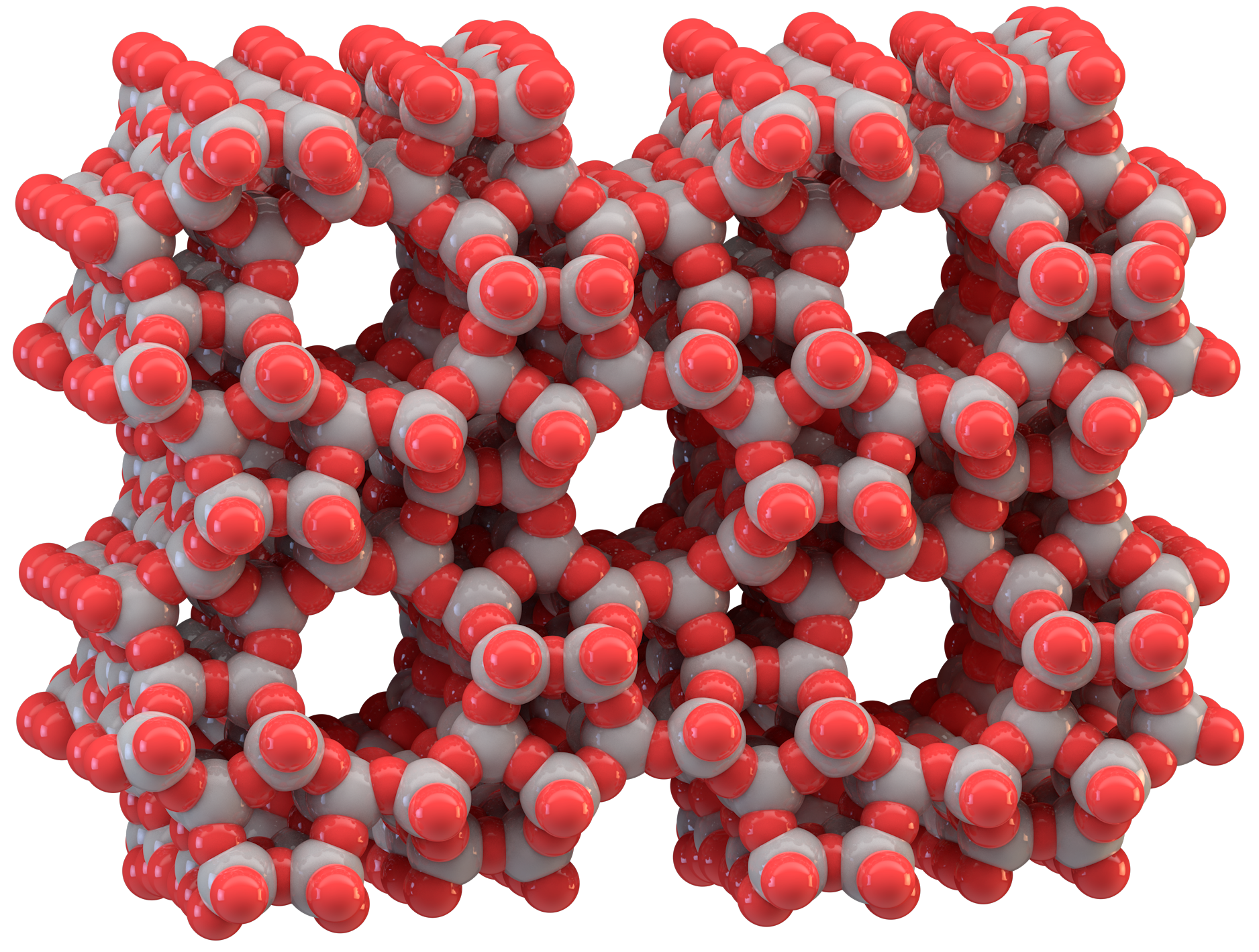 The microporous molecular structure of a zeolite, ZSM-5. This aluminosilicate zeolite has a high silicon and low alumininum content.